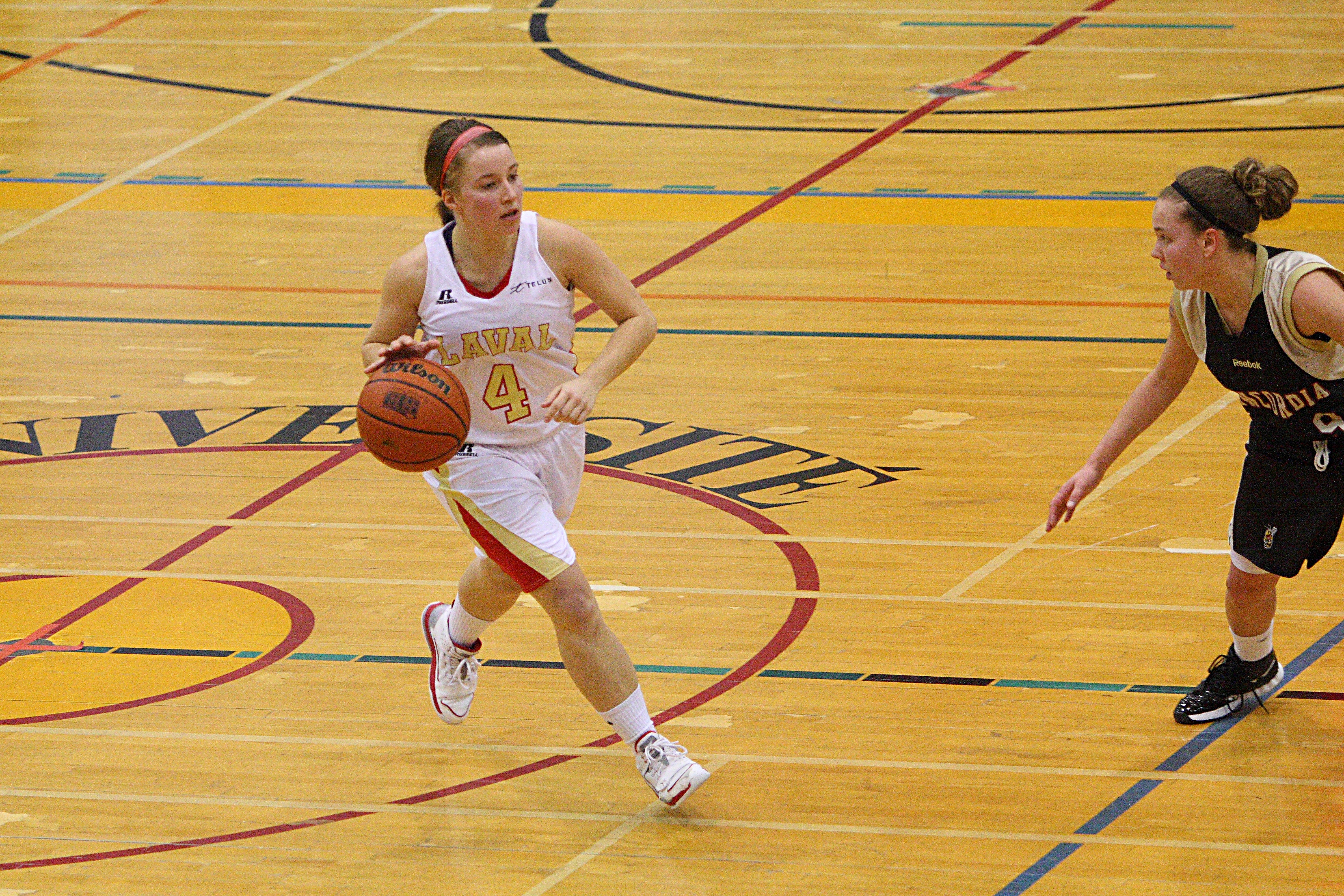 Marjorie Ferland (4), Laval Rouge et Or guard for the basketball team, Laval University Sports and Physical Education Pavilion. On the right, Ashley Clarke (9) from Concordia Stingers